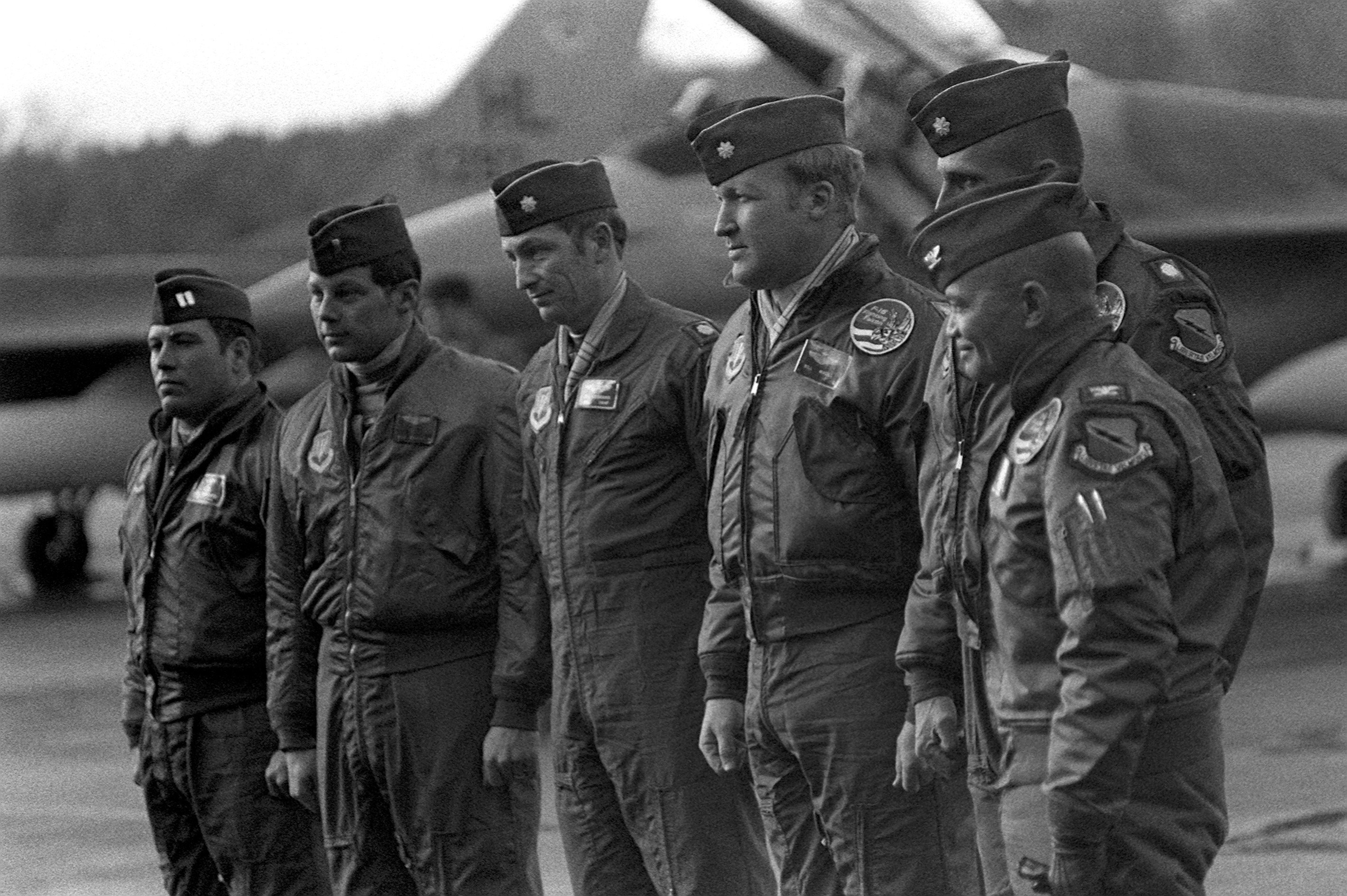 COL Jerald Gentry, commander, 388th Tactical Wing (far right), stands with other F-16 Fighting Falcon aircraft pilots to meet MGEN Bjorn Hermannson, commander Air South, Norway. The pilots are taking part in Operation Cornet Falcon, the first overseas deployment of the F-16 aircraft.